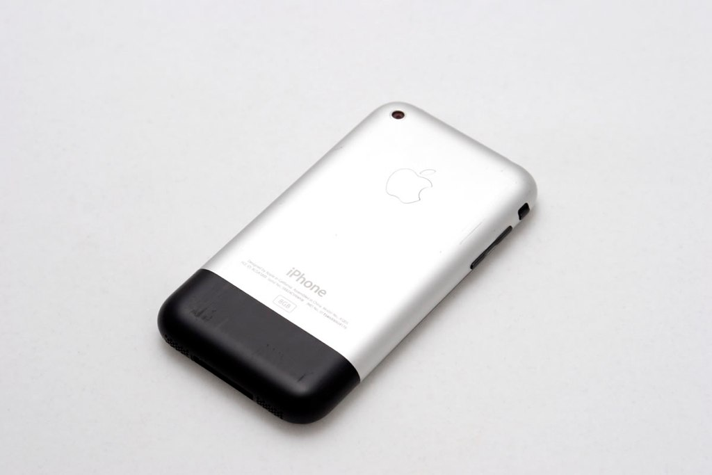 Apple portable media got a major upggrade with the introduction of the iPhone. Originally announced on January 9, 2007 Apple entered the market with its first Smart Phone market. With it signature touch screen and minimal interface that renders a virtual keyboard or custom interface options when necessary. The first generation iPhone has a 2.0 Megapixel camera, portable media functions, internet (including email, web browsing, and Wi-Fi connductivity) as well as text messaging and visual voicemail. First-generation phones were released with quad-band GSM EDGE.